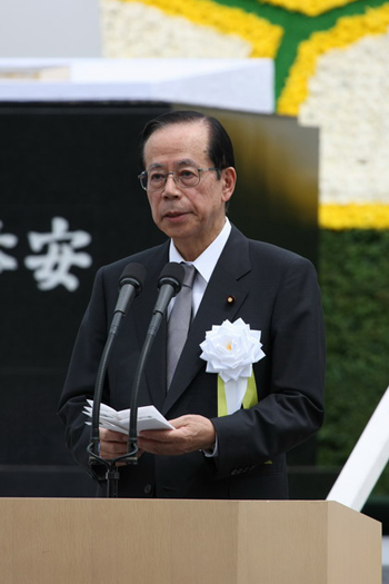 Yasuo Fukuda, Prime Minister, addressed at Nagasaki Peace Ceremony at the Peace Park in Nagasaki City, Nagasaki Prefecture on August 9, 2008.